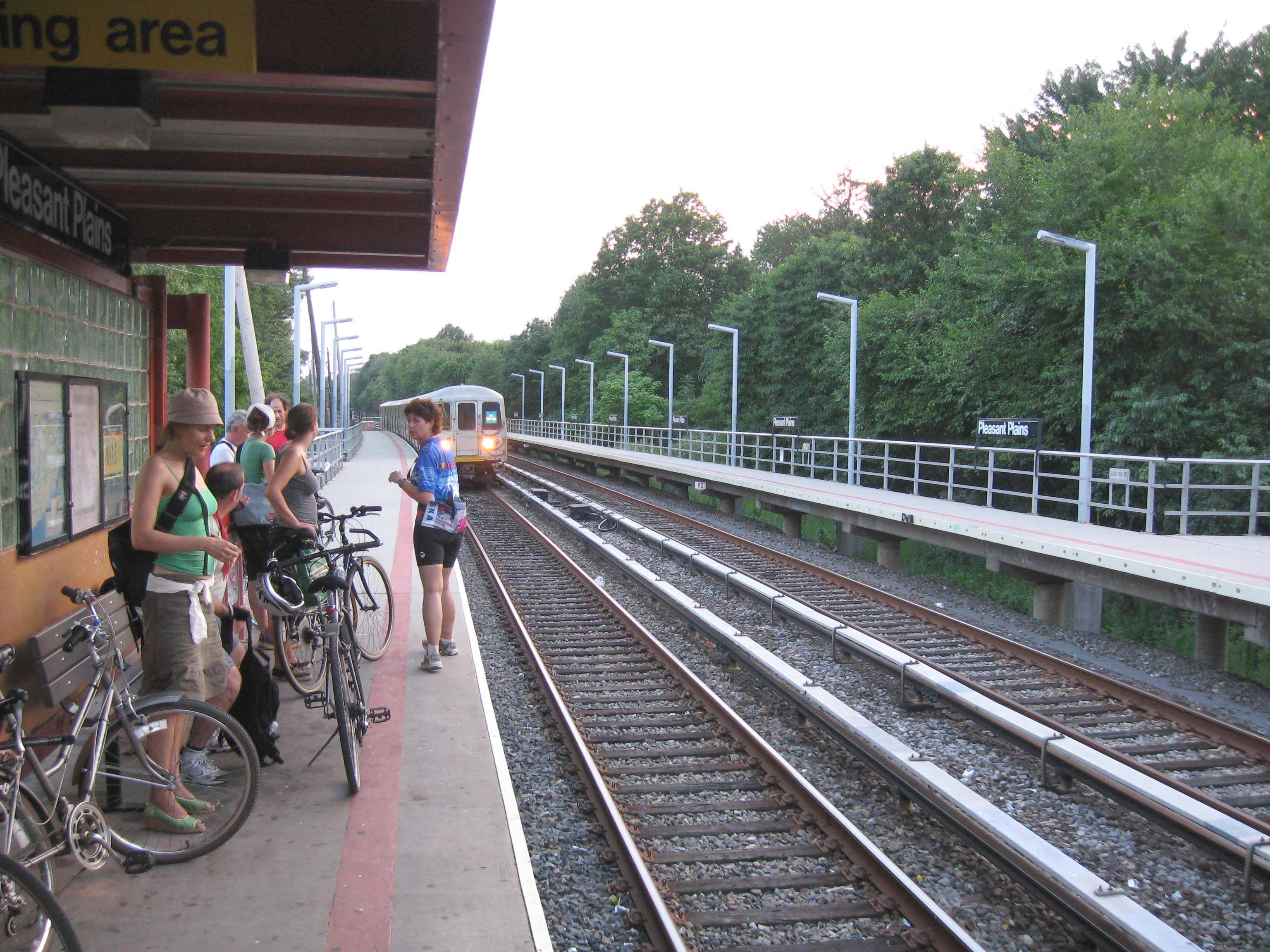 Looking west along platform at tired tourists led by Bettina Johae (in gray) awaiting a northbound train at Pleasant Plains (Staten Island Railway station) at dusk of a sunny day.